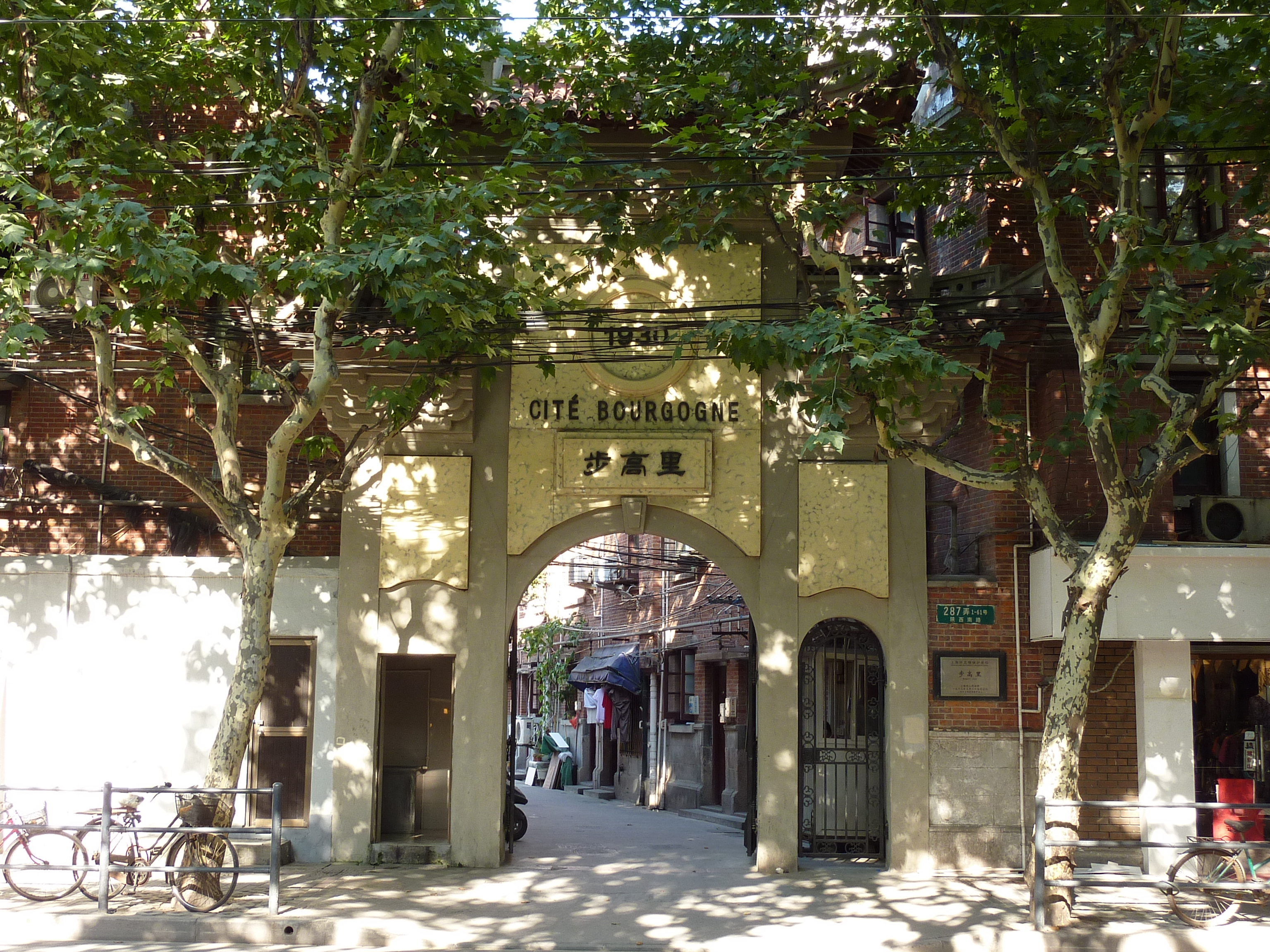 Bugaoli Lane